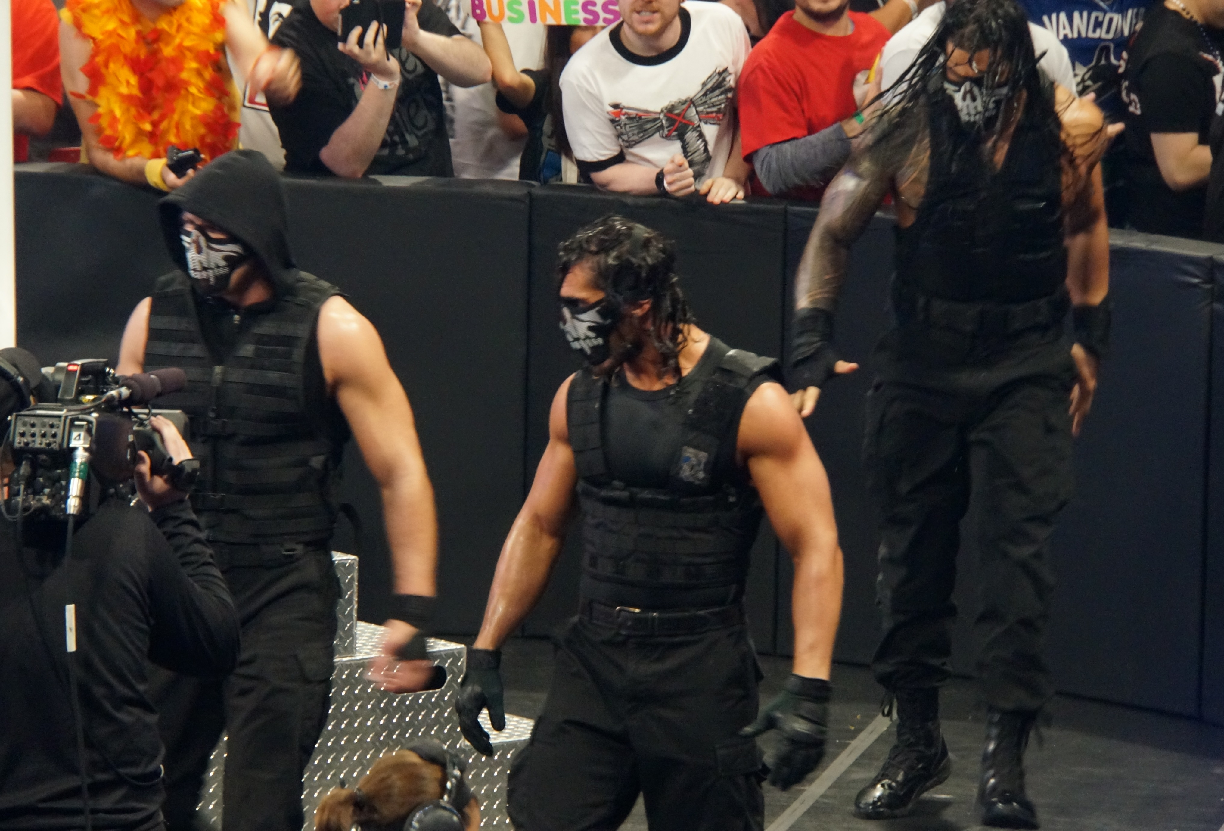 The Shield (Ambrose, Reigns and Rollins) as face